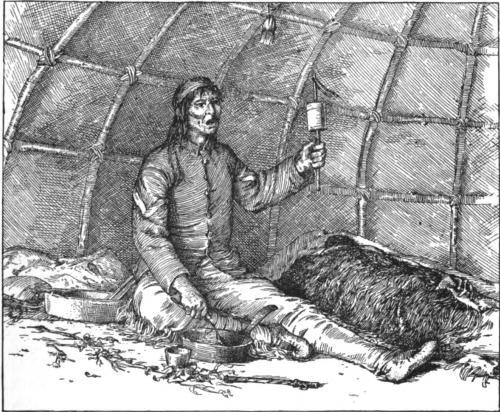 Ojibwa midewiwin preparing herbal medicine.